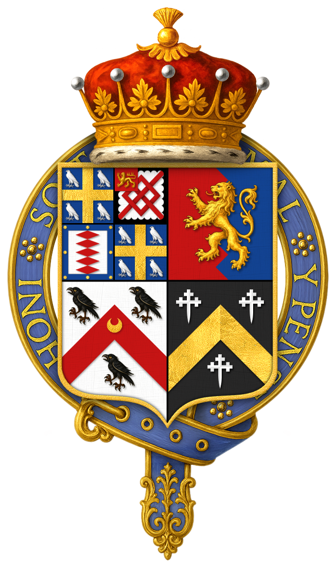 Coat of arms of Sir Thomas Wriothesley, 1st Earl of Southampton, KG See Southampton's stall plate within St. George's Chapel. The plate is currently viewable online at the Royal Collection Trust website.